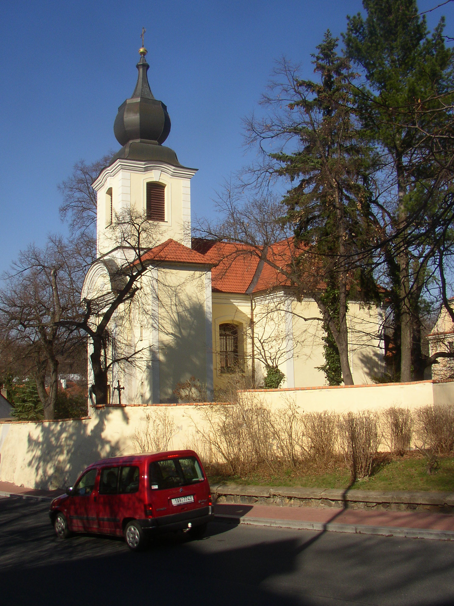 SS Peter and Paul church in old part of Bohnice district, Prague, Czech Republic.